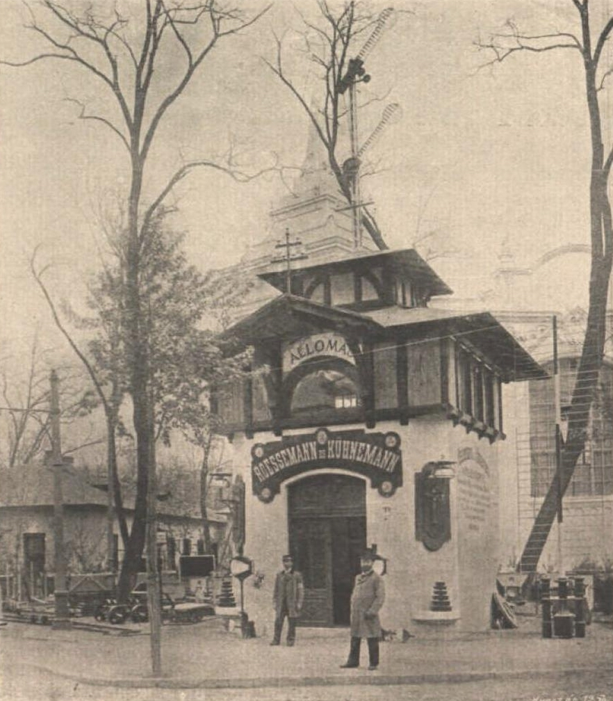 Millennial exhimbition in Budapest, Railway station